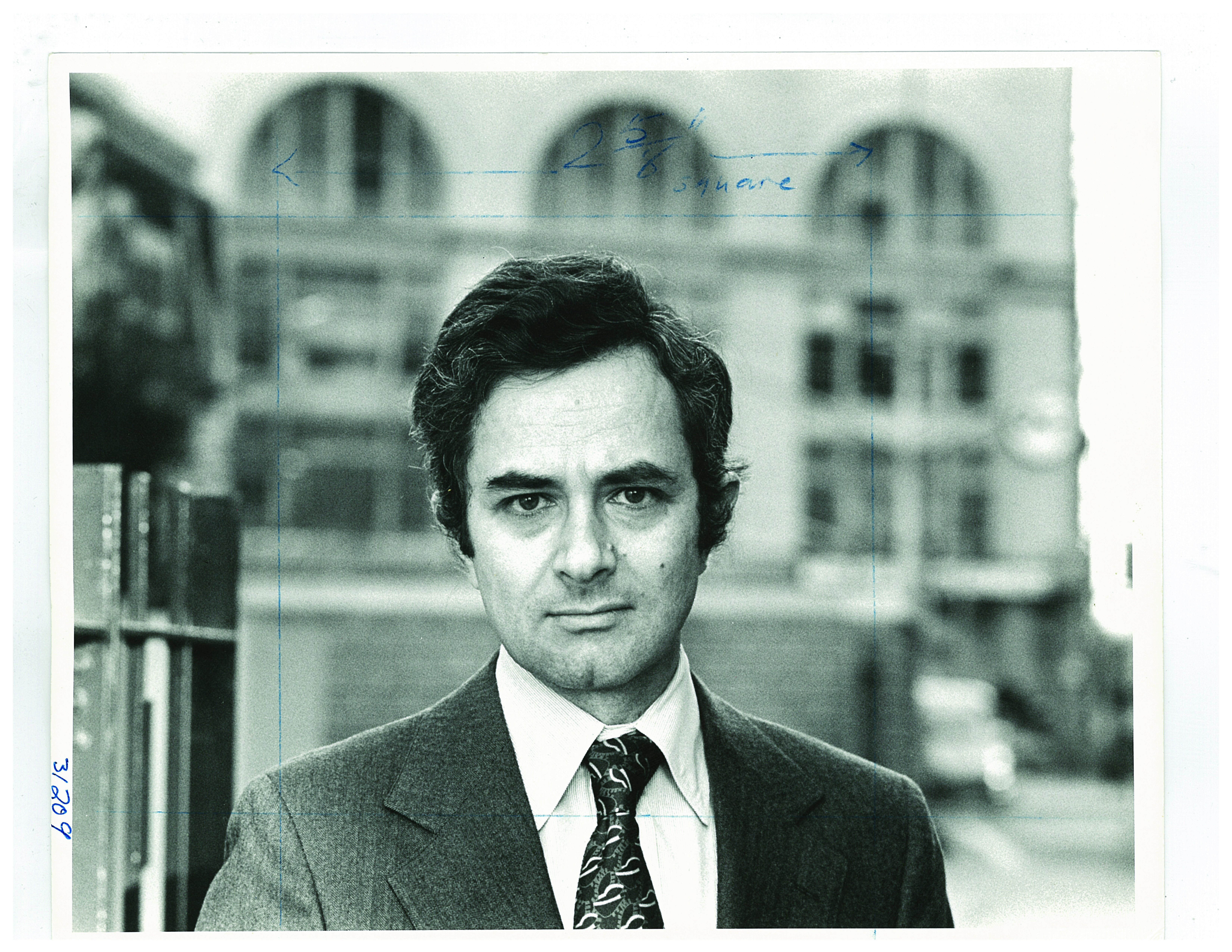 portrait